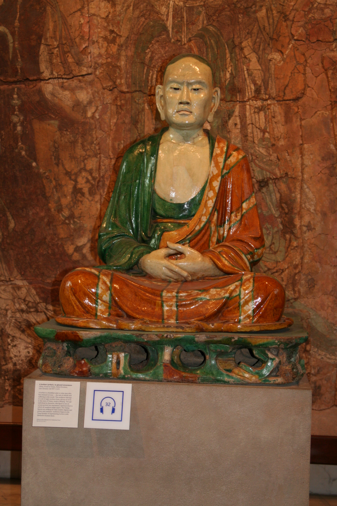 Photos taken at the British Museum - Asian Gallery - Glazed stoneware of a luohan, or arhat, from the Liao Dynasty (907-1125 AD) of northern China.